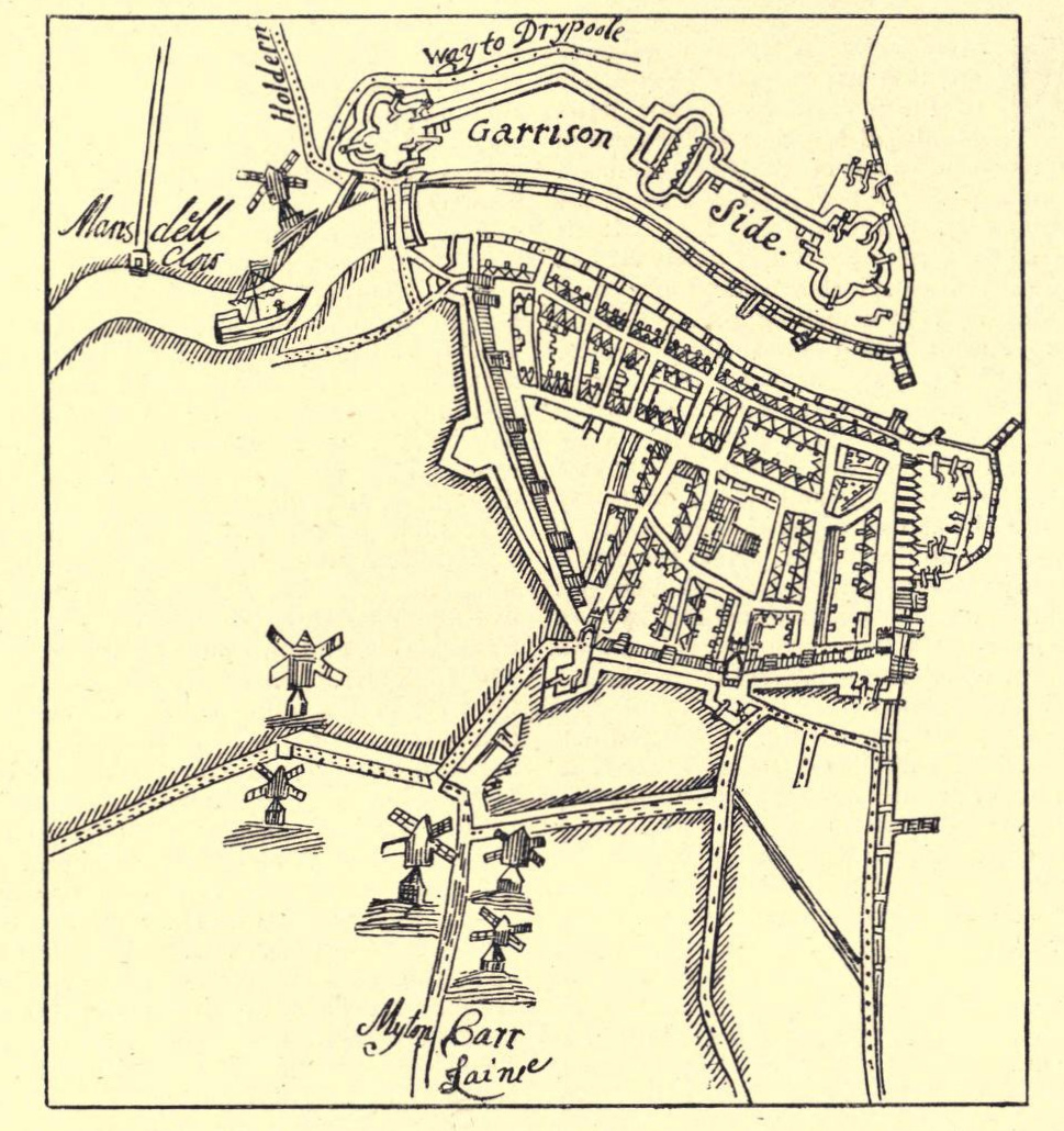 Part of map credited said to be by Joseph Osborne, 1668 - shows detail of Hull, fortifications of Hull, river Hull, up is East. See source for more details